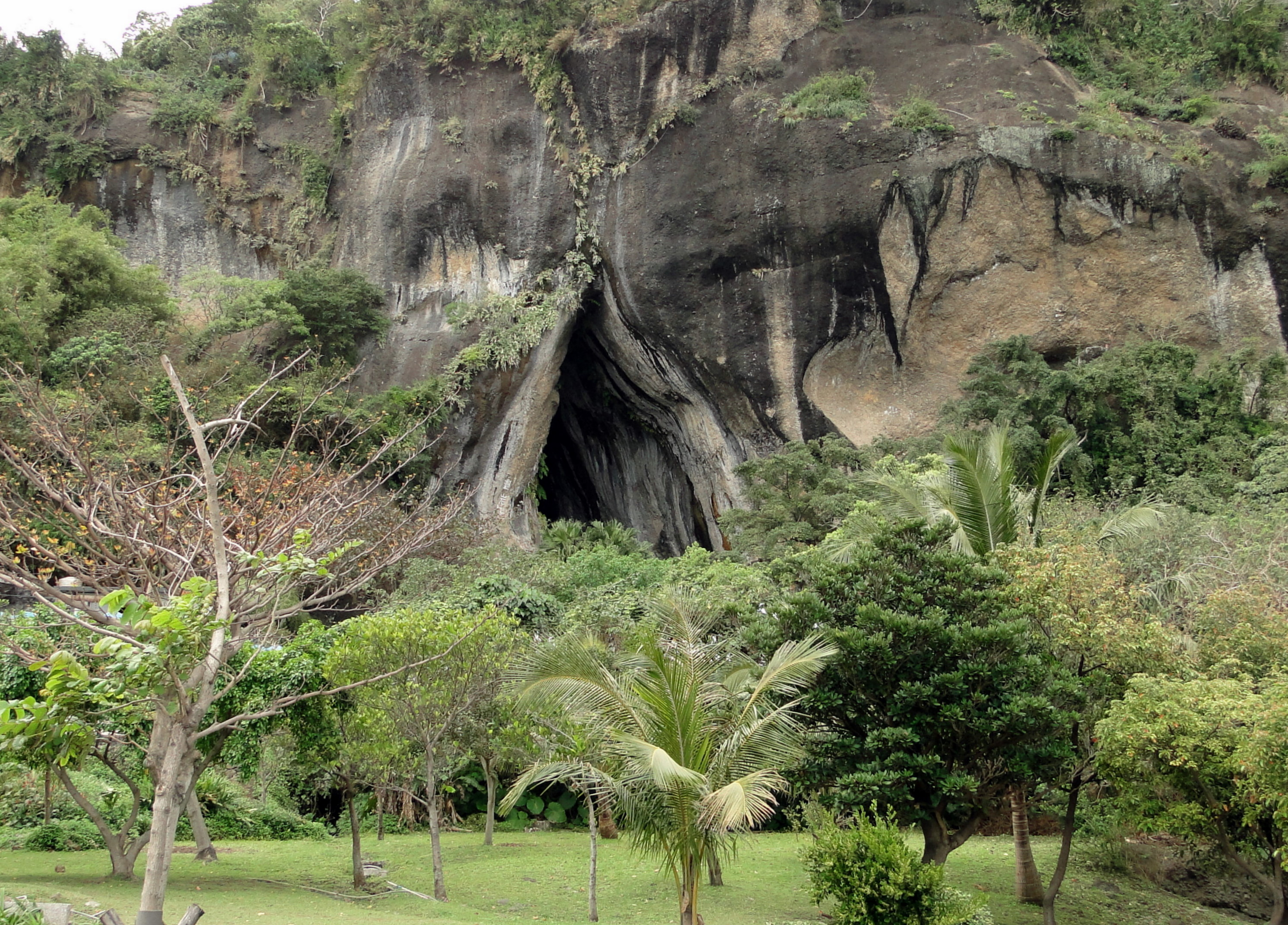 Bashian Caves, Hualien County, Taiwan